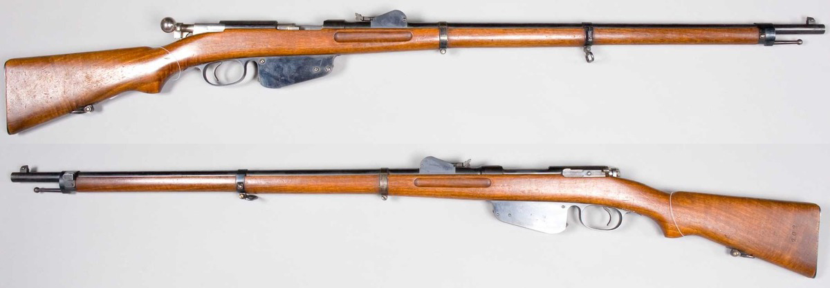 Mannlicher M1886 rifle made in 1887.